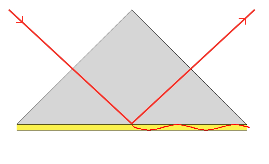 Scheme of SPR setup.